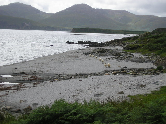 Sheep on the beach. Beach below Jura house with Islay in the distance.